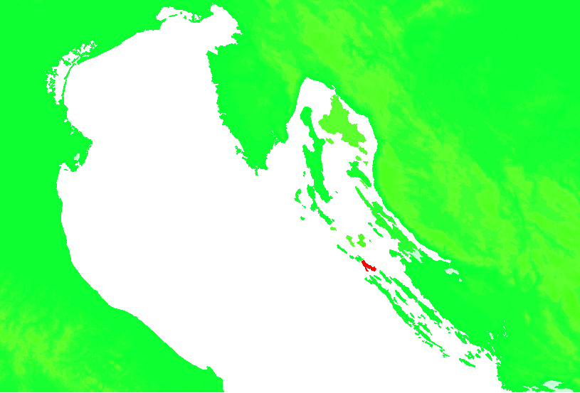 Island of Croatia Croatia - Molat.PNG